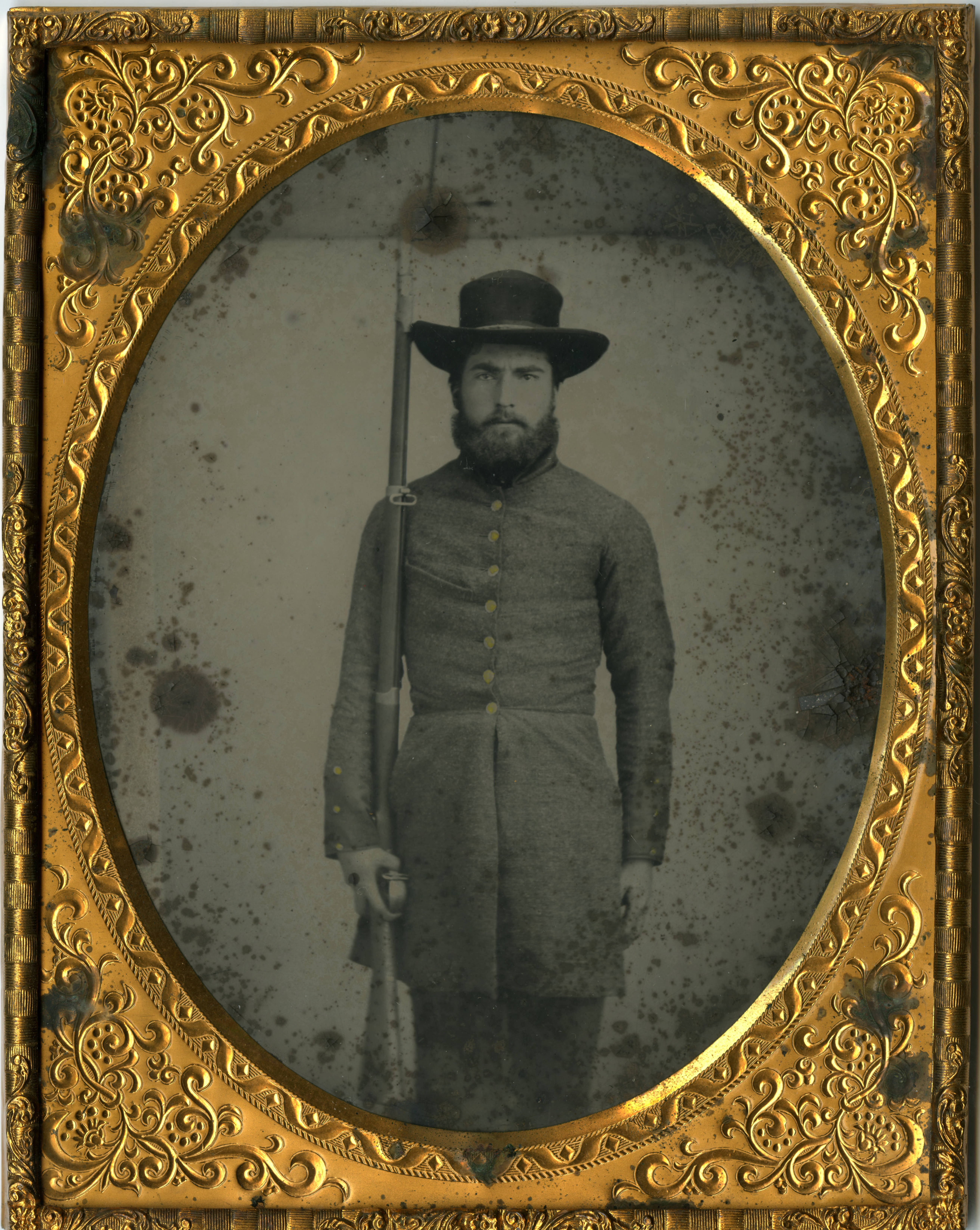 Tintype of Confederate soldier Nathan B. Nesbitt from Carroll County, TN, who served in Co. H, Brown's 55th Tenn. Infantry. He was taken prisoner in April 1862 and held in Camp Douglas. Tennessee State Library and Archives, ID#: tsla164